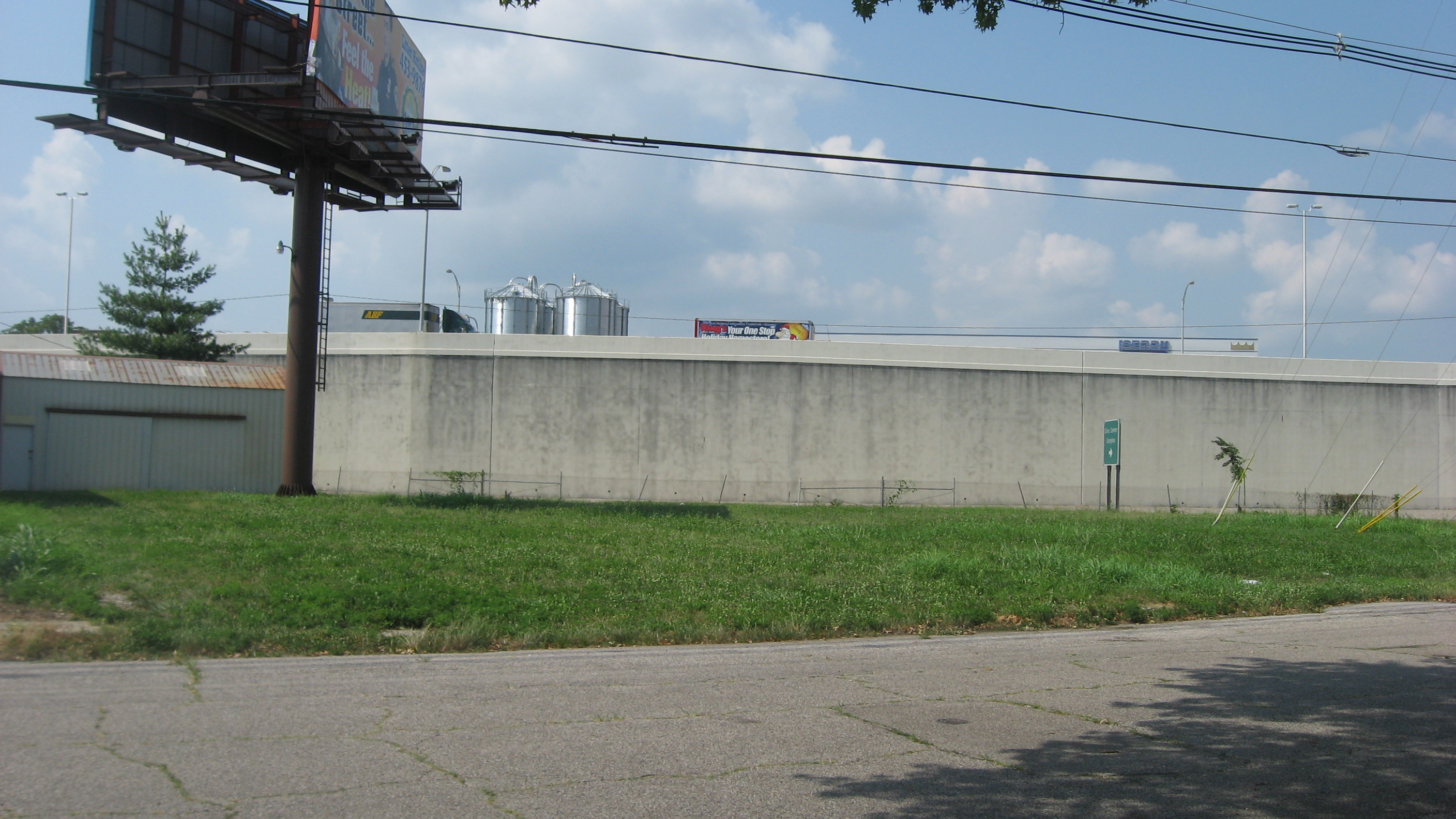 Site of the August Kuehn House, located at 608-610 Ingle Street in Evansville, Indiana, United States. Built in 1864, it was listed on the National Register of Historic Places in 1984; although it has been demolished, it remains on the Register. In the background is the Lloyd Expressway.